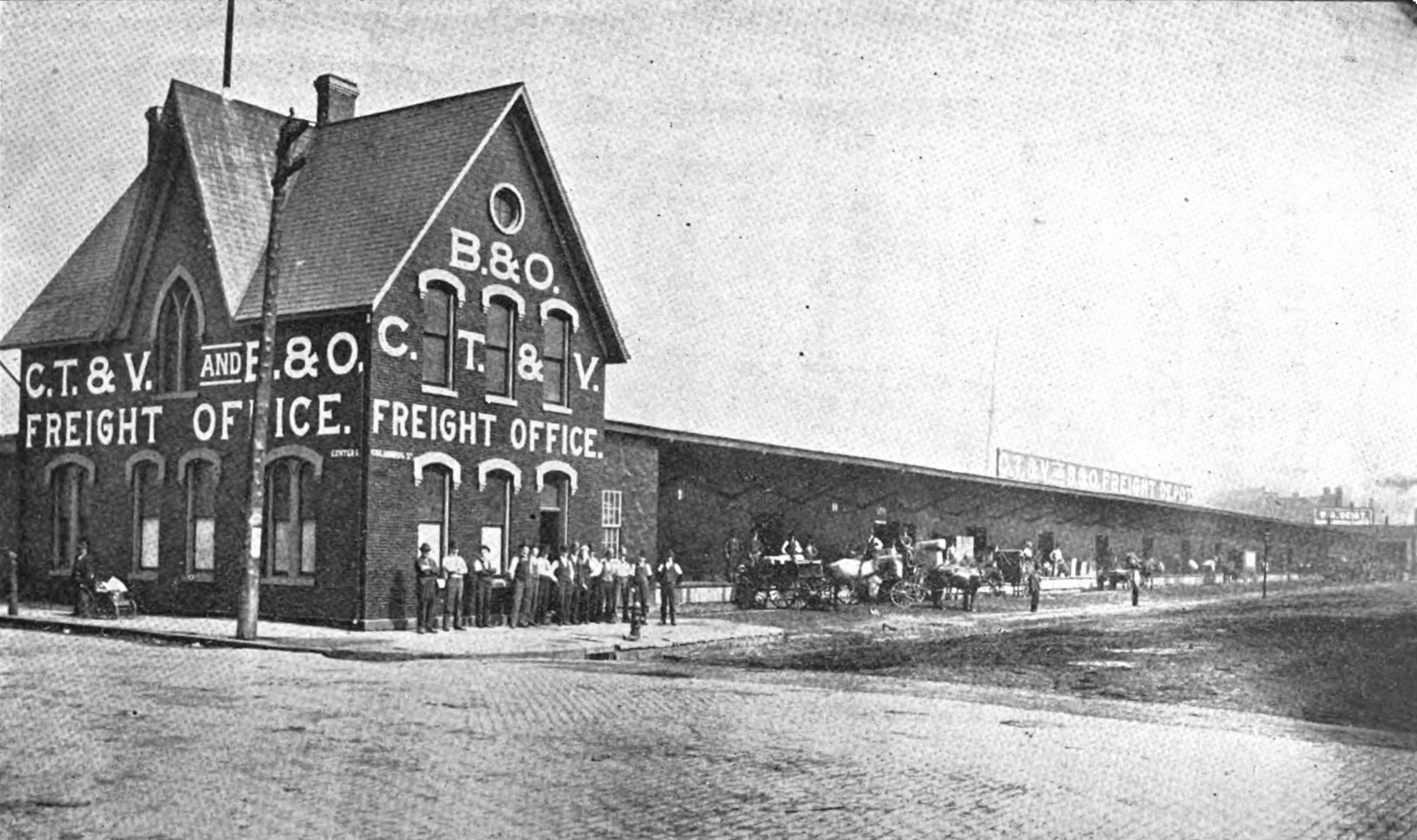 Columbus Road freight depot of the Cleveland, Terminal and Valley Railway (formerly the Valley Railway) in Cleveland, Ohio, in the United States. In February 1896, the CT&V acquired 2,500 feet (760 m) of riverfront along Columbus Road south of Center Street. Finished in June 1896, the steel-frame station was 50 feet (15 m) deep and 500 feet (150 m) long, with walls and roofing of sheet metal. There were 25 loading bays on the street side, and traveling overhead cranes facilitated the movement of heavy loads onto pallets or into freight wagons. The depot also featured five McMyler rotary car dumpers to facilitate the unloading of hopper cars carrying coal. To connect the new freight station and docks with the main tracks, the city closed Lime Street. The total cost of the project was estimated at $500,000 ($14,700,000 in 2017 dollars).